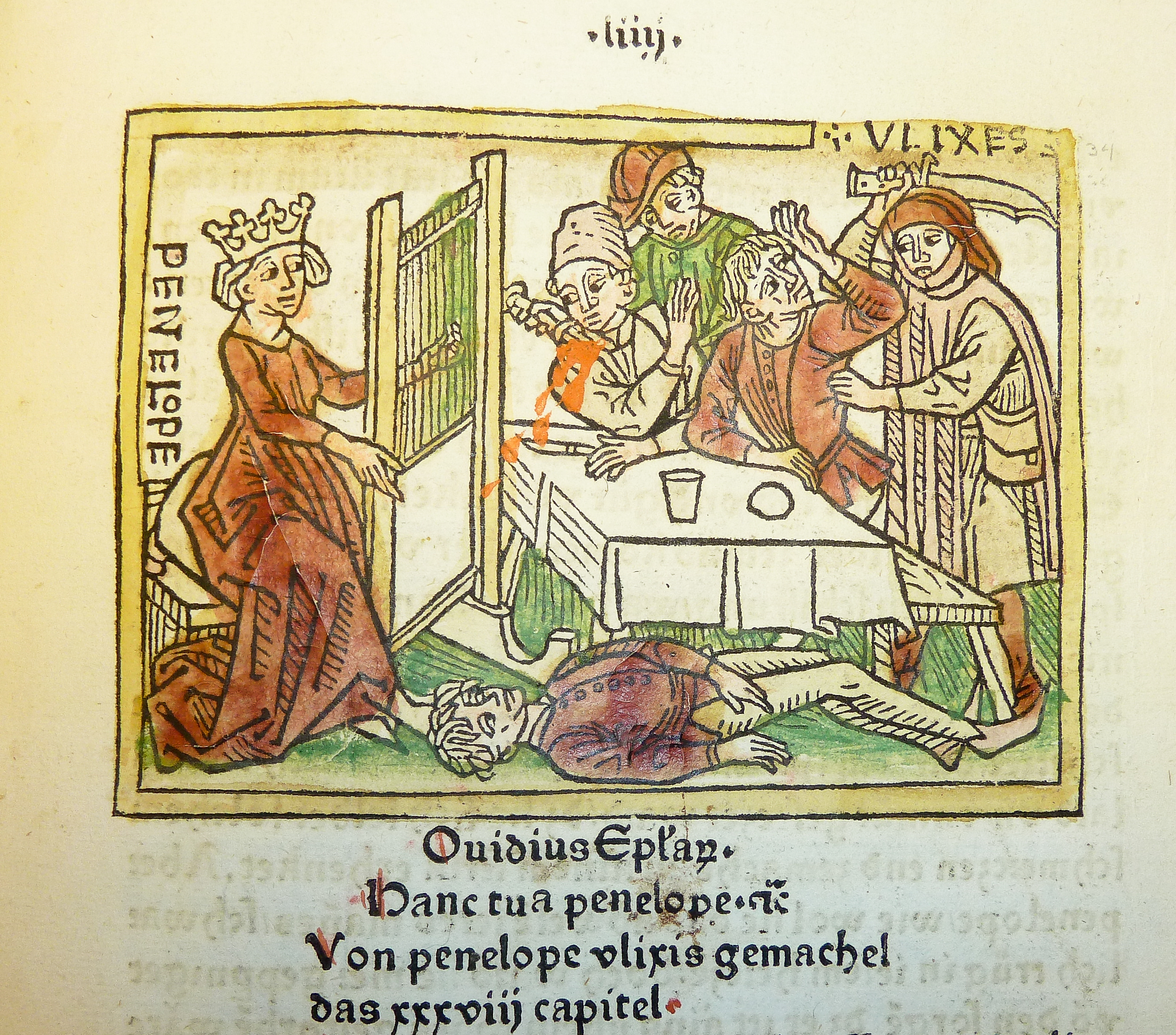 Woodcut illustration (leaf [g]4r, f. liiij) of Odysseus's return to Penelope, hand-colored in red, green, and yellow, from an incunable German translation by Heinrich Steinhöwel of Giovanni Boccaccio's De mulieribus claris, printed by Johannes Zainer at Ulm ca. 1474 (cf. ISTC ib00720000). One of 76 woodcut illustrations (1 on leaf [e]8v dated 1473), each 80 x 110 mm., depicting scenes from the life of the women chronicled (for a full list of subjects, cf. W.L. Schreiber, Handbuch der Holz- und Metallschnitte des XV. Jahrhunderts (Nendeln: Kraus Reprints, 1969), no. 3506). "Pour la première moitie le nom se trouve inscrit à côte de la tête de chaque femme, pour le reste il es ajouté entre les deux réglettes. Il n'y en a que trois, qui n'ont qu'un seul trait carré."--Schreiber. Established form: Zainer, Johannes, ‡d d. 1541?. Established form: Odysseus (Greek mythology) Established form: Penelope (Greek mythology) Penn Libraries call number: Inc B-720 All images from this book Penn Libraries catalog record